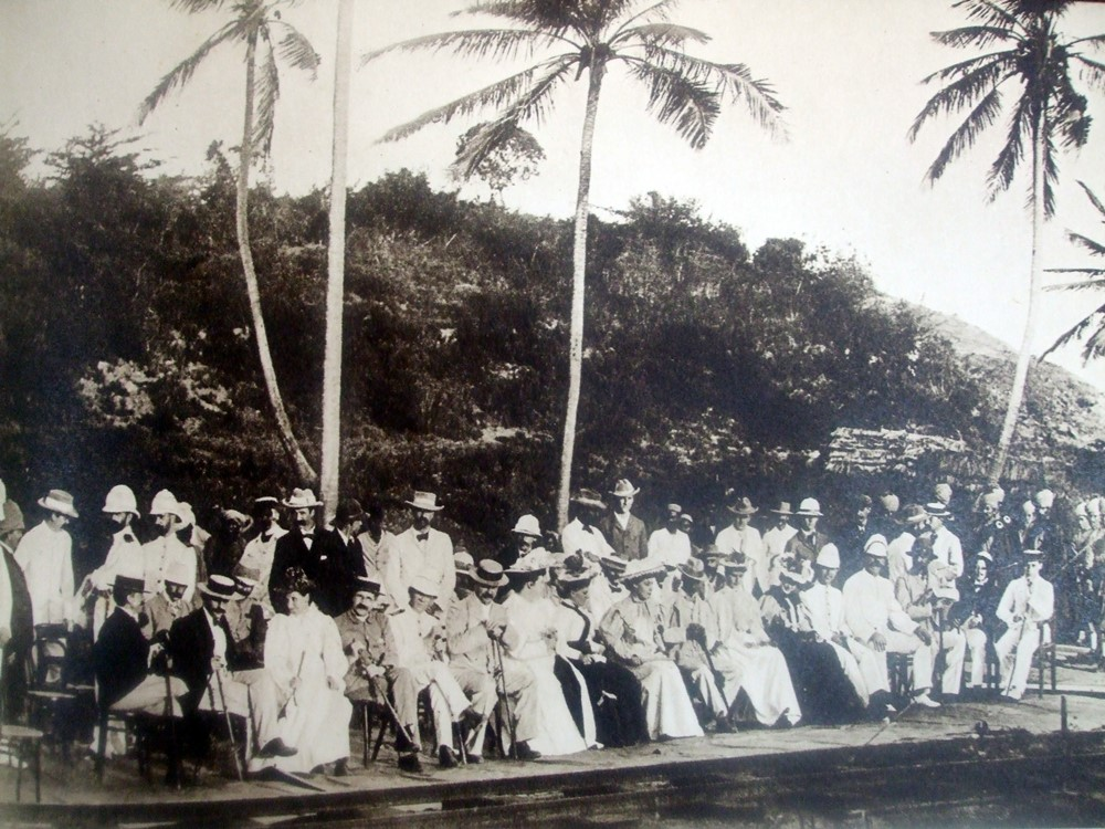 First day of work in the Uganda railway, 30th May 1896.